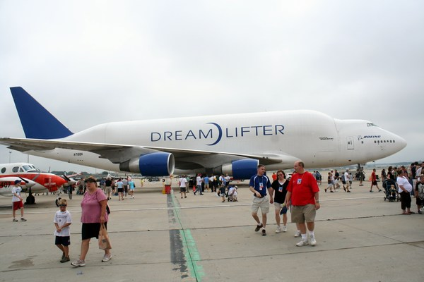 A photograph of the right side of a Boeing 747 Large Cargo Freighter/Dreamlifter (tail number N718BA). It was on static display at the 2010 Rockford AirFest in Rockford, Illinois.